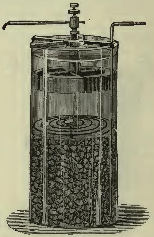 In this Lockwood cell the zinc plate is made like a kind of wheel with spokes, so as to expose a large surface to the liquid, and is supported by three lugs resting on the edge of the glass vessel. The copper plate is made of thick copper wire, bent into the form of a double spiral, with the crystals of copper sulphate placed between the spirals, the upper spiral being found to retard the travelling up of the copper sulphate solution to the zinc plate if the cell be kept sending even only a weak current. For the lower spiral, a copper disc, similar to that used with the Minotto's cell may be substituted, and for the upper one, a perforated copper disc, without interfering with the action of the Lockwood cell.